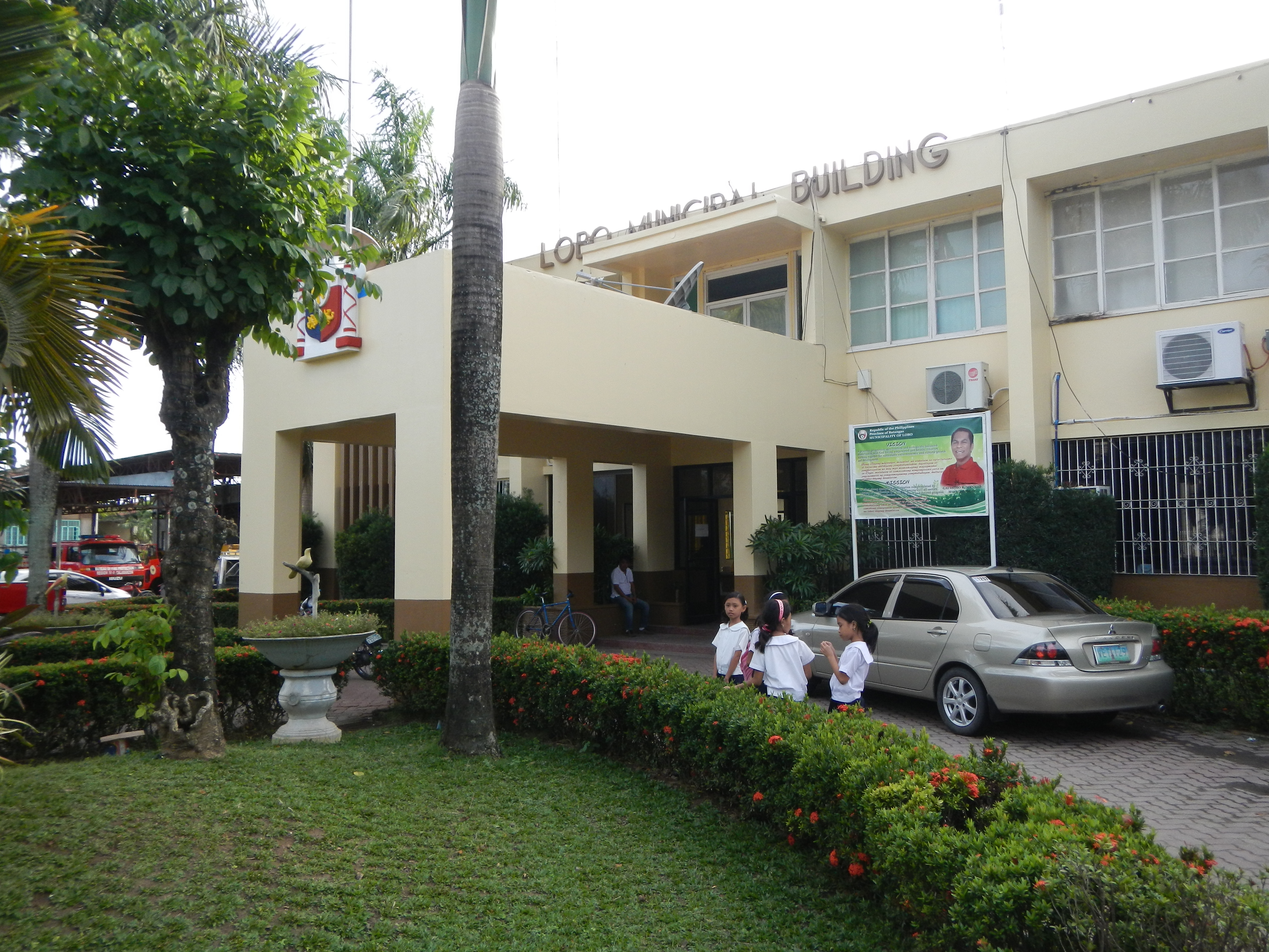 Upload Wizard photos - (group, general description of the landmarks, attractions of this town and church) specifically - of - the Town Proper, Lobo Municipal Hall Complex, and the Saint Michael the Archangel Parish Church of Lobo, Batangas[1] Barangay Fabrica, 13° 38' 13.12" N 121° 12' 20.29" E [2] Vicariate III – Immaculate Concepcion, belongs to the Roman Catholic Archdiocese of Lipa - and the almost sunset photos of the Lobo Beach at Marsol, of - Lobo, Batangas [3] (a third class municipality in the Province of Batangas, Philippines; 2010 census, it has a population of 37,070 people politically subdivided into 26 barangays.[4] Poblacion Lobo Town Proper Coordinates: 13°38'49"N 121°12'30"E History [5] Mount Banoi Sitio Malabnig, Brgy. Balatbat, Lobo LLA: 960 MASL Main Peak 850 MASL Two Towers' Peak: Woodlands, scenic views of Southern Batangas;] [6] [7] Red Mountain Mining's Batangas gold project not significantly impacted by Typhoon Haiyan.